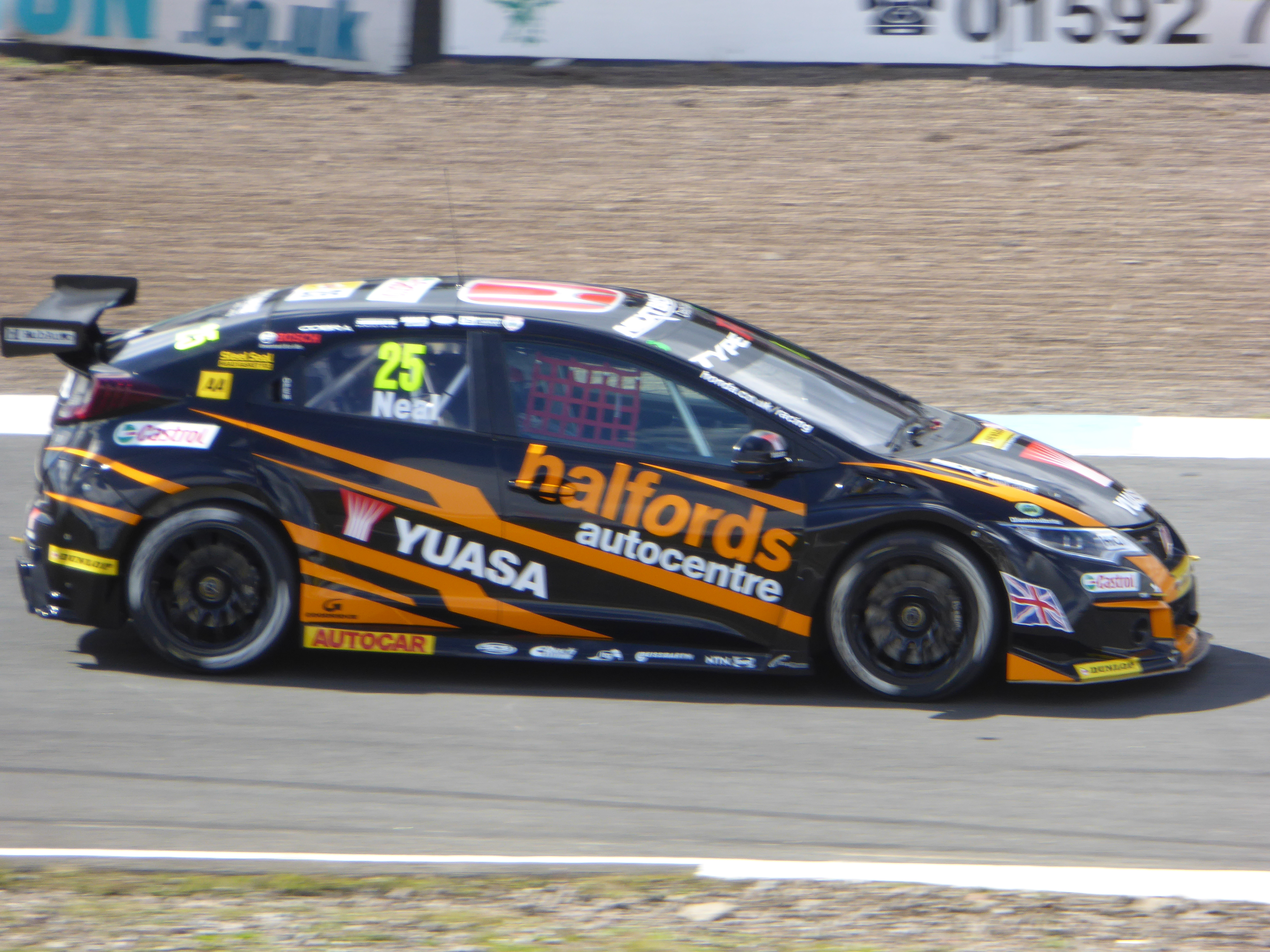 Matt Neal (Halfords Yuasa Racing), at the Knockhill round of the 2017 British Touring Car Championship.